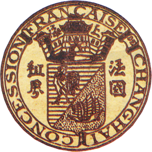 Seal of Shanghai French Concession.